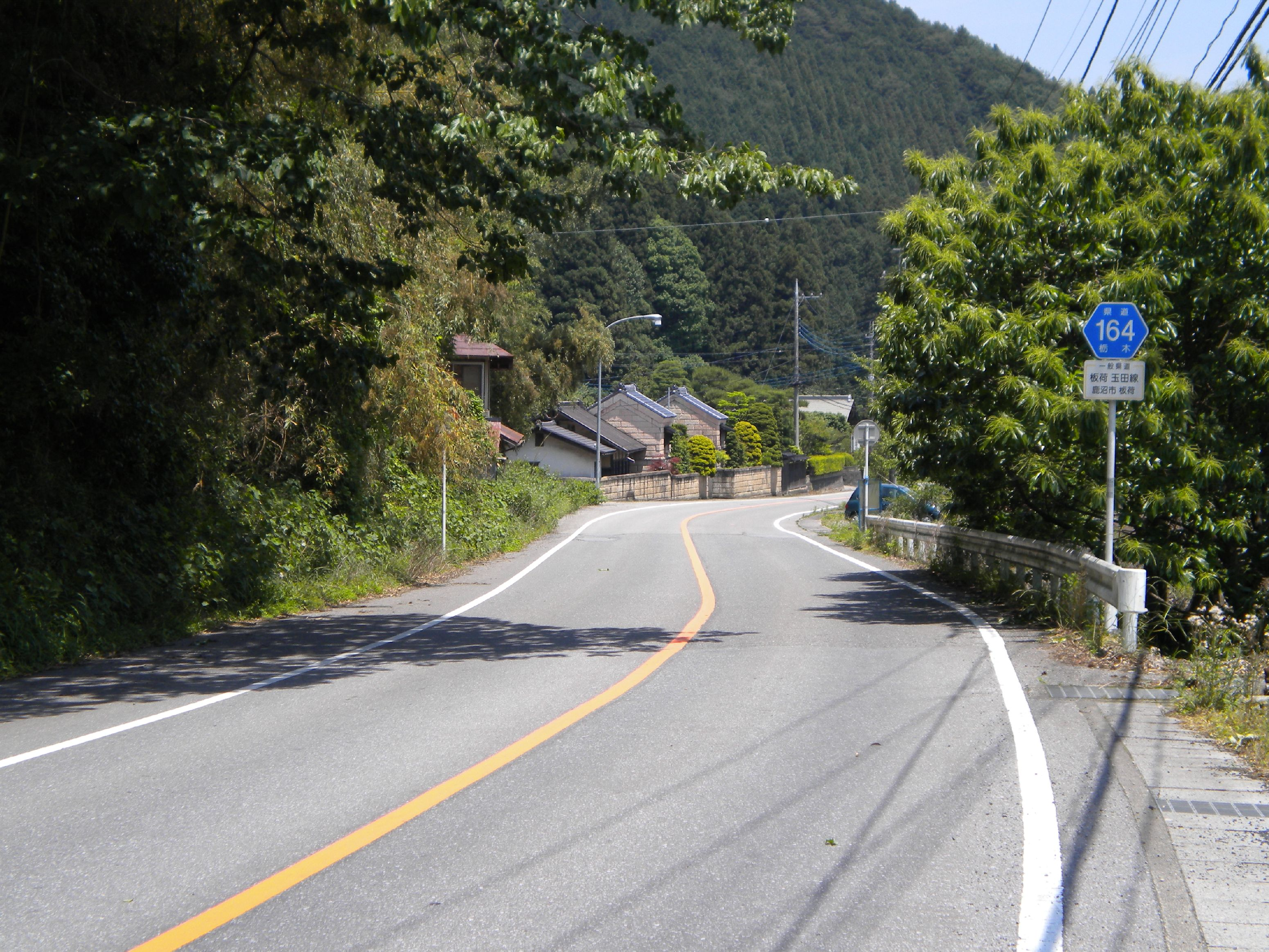 The Tochigi Prefectural Road Route 164 in Itaga, Kanuma City